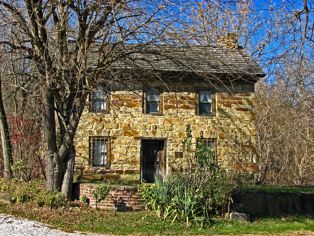 Front of the Philip Moore Stone House, located along State Route 239 south of West Portsmouth in Washington Township, Scioto County, Ohio, United States. Built in 1797, it is listed on the National Register of Historic Places.